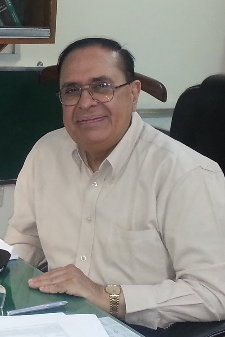 recent photo of Atta-ur-Rahman